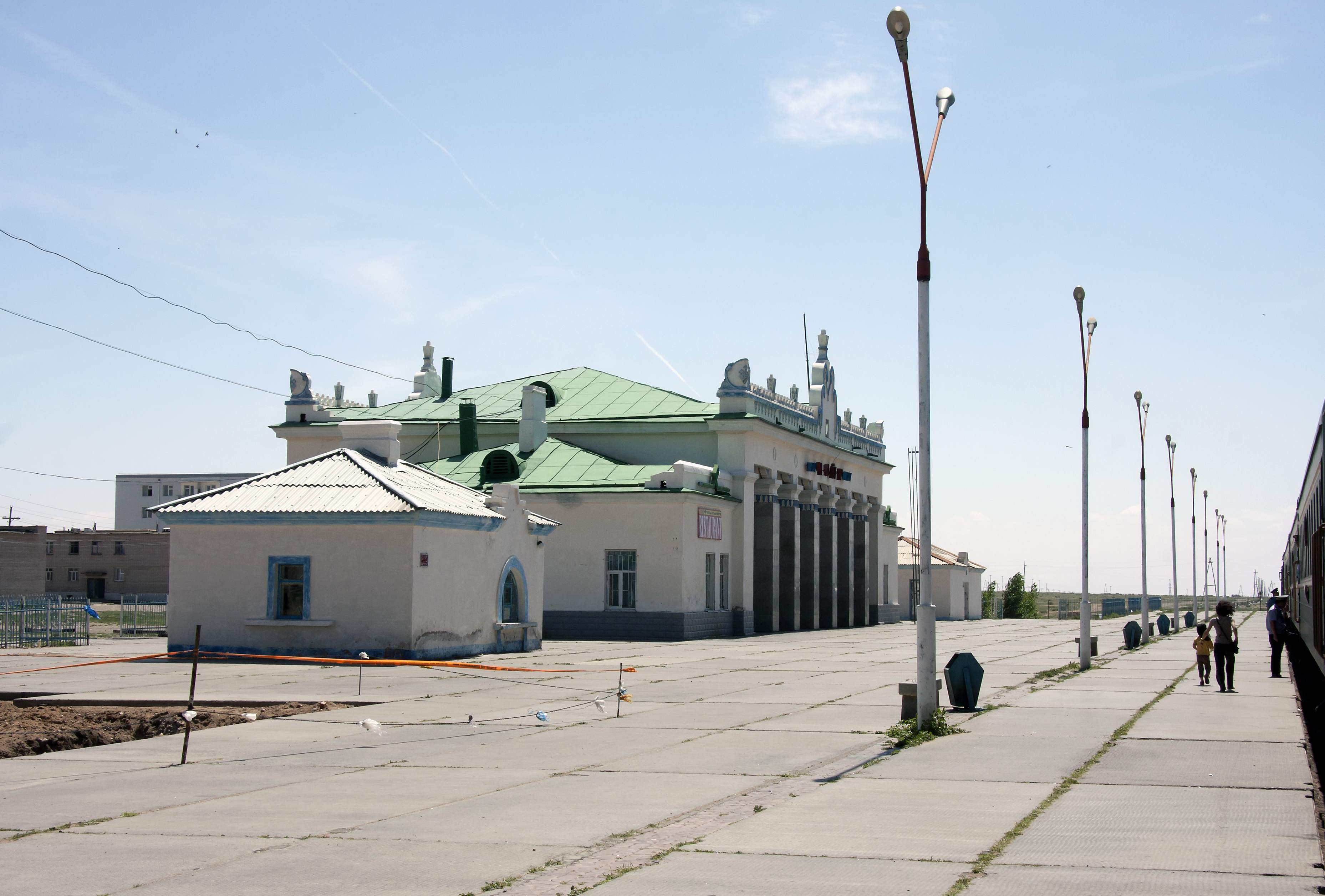 Train station in Mongolian town Choir.